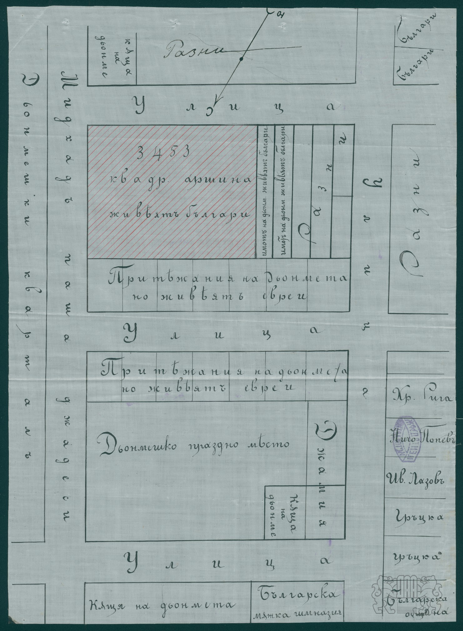 Thessaloniki Bulgarian Highschool and Municipality Map